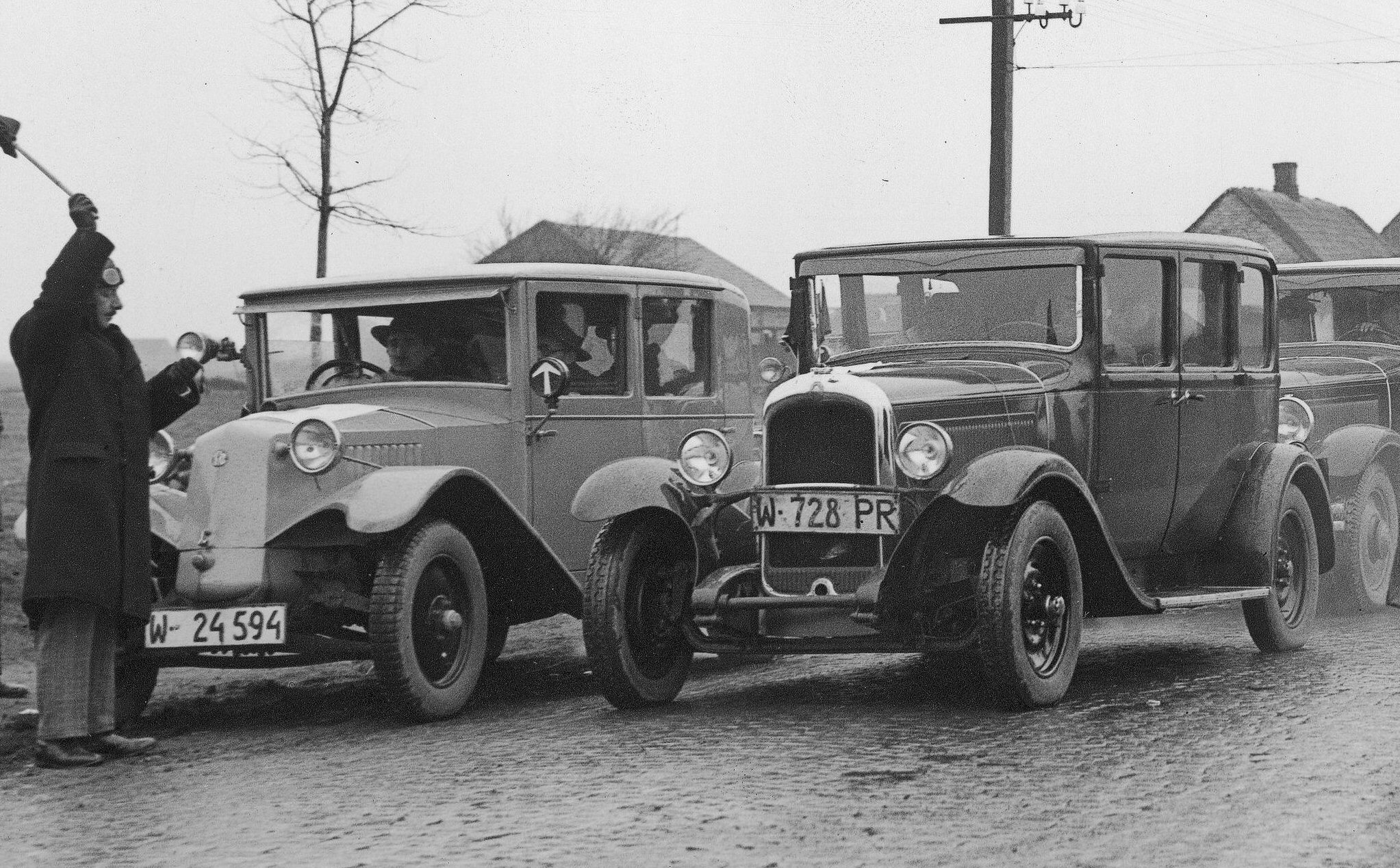 Polish rally to Spała.